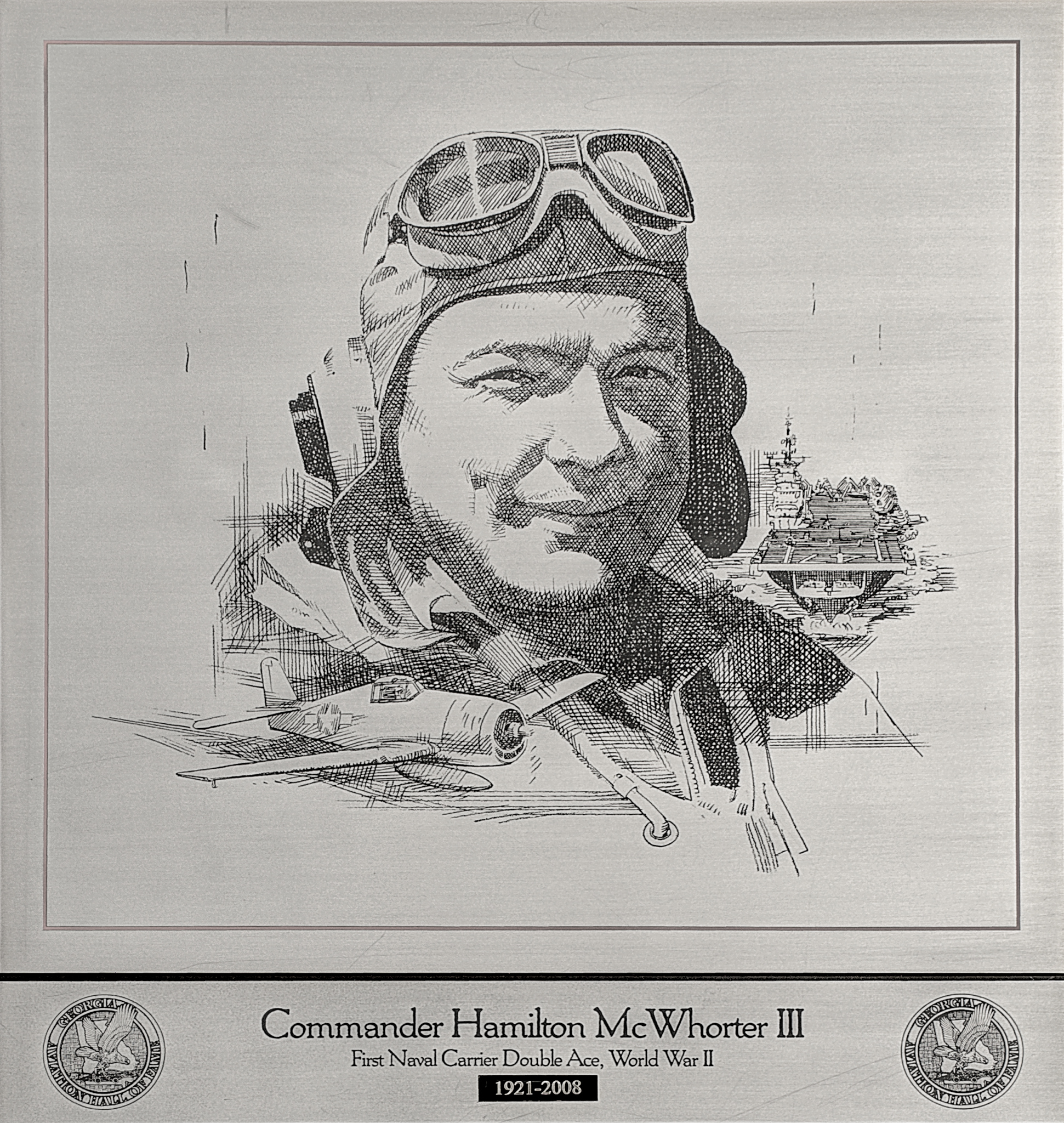 Commander Hamilton McWhorter III (1921 - 2008)